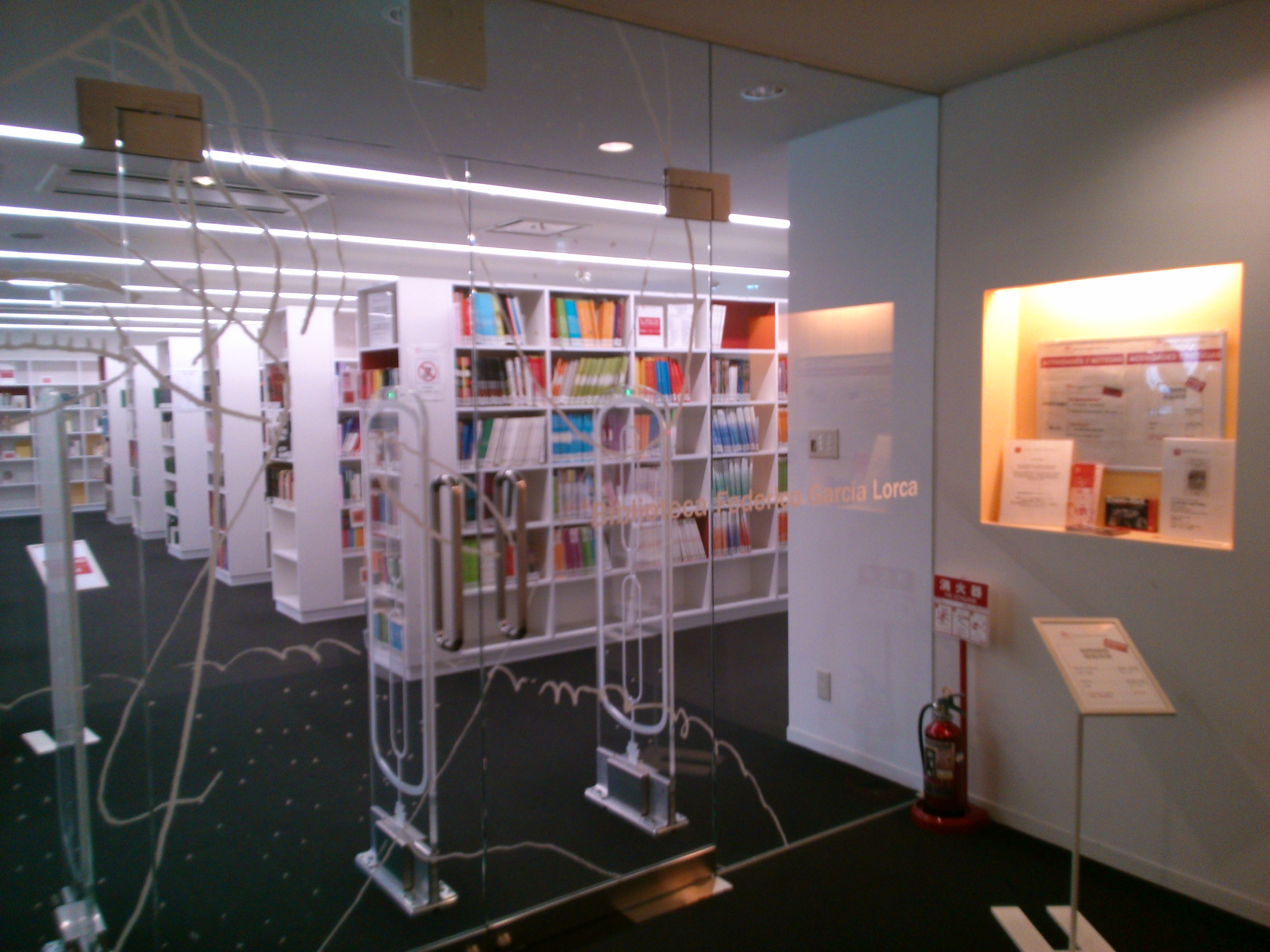 Federico Garcia Lorca Library in Instituto Cervantes Tokyo (Instituto Cervantes Tokio) in Tokyo, Japan.